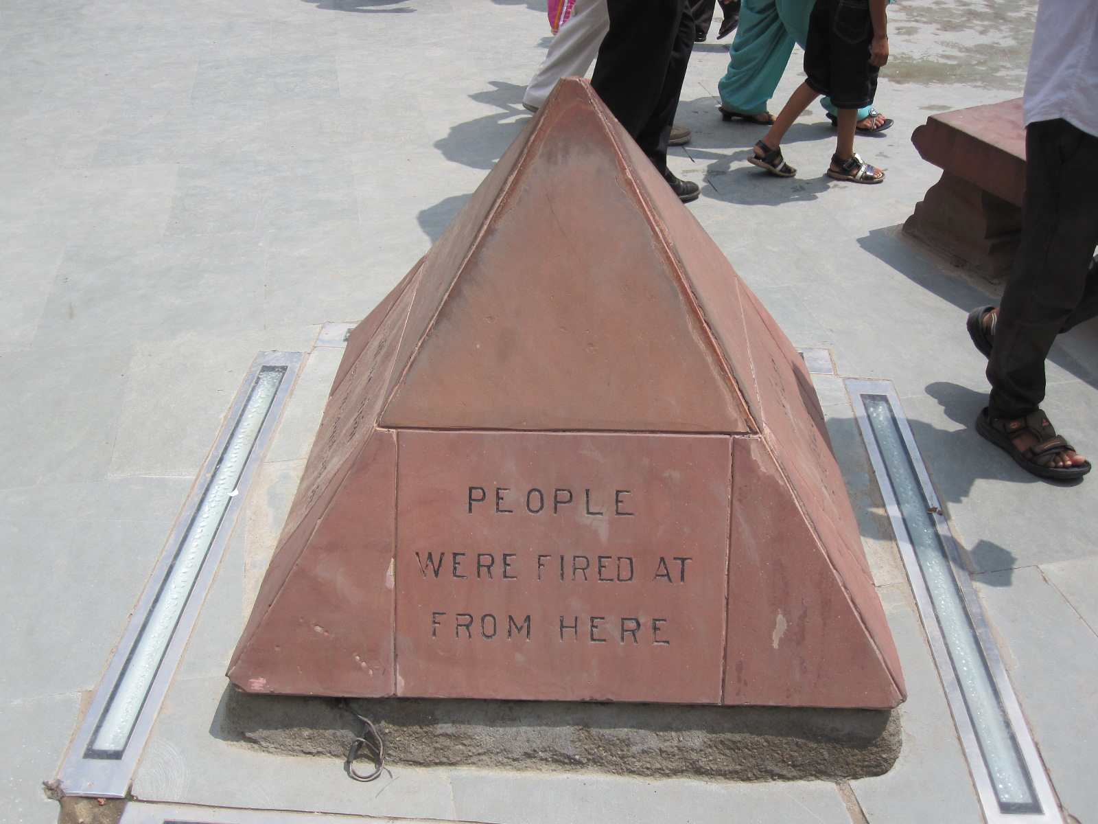 people were fired from here Jallianwala Bagh